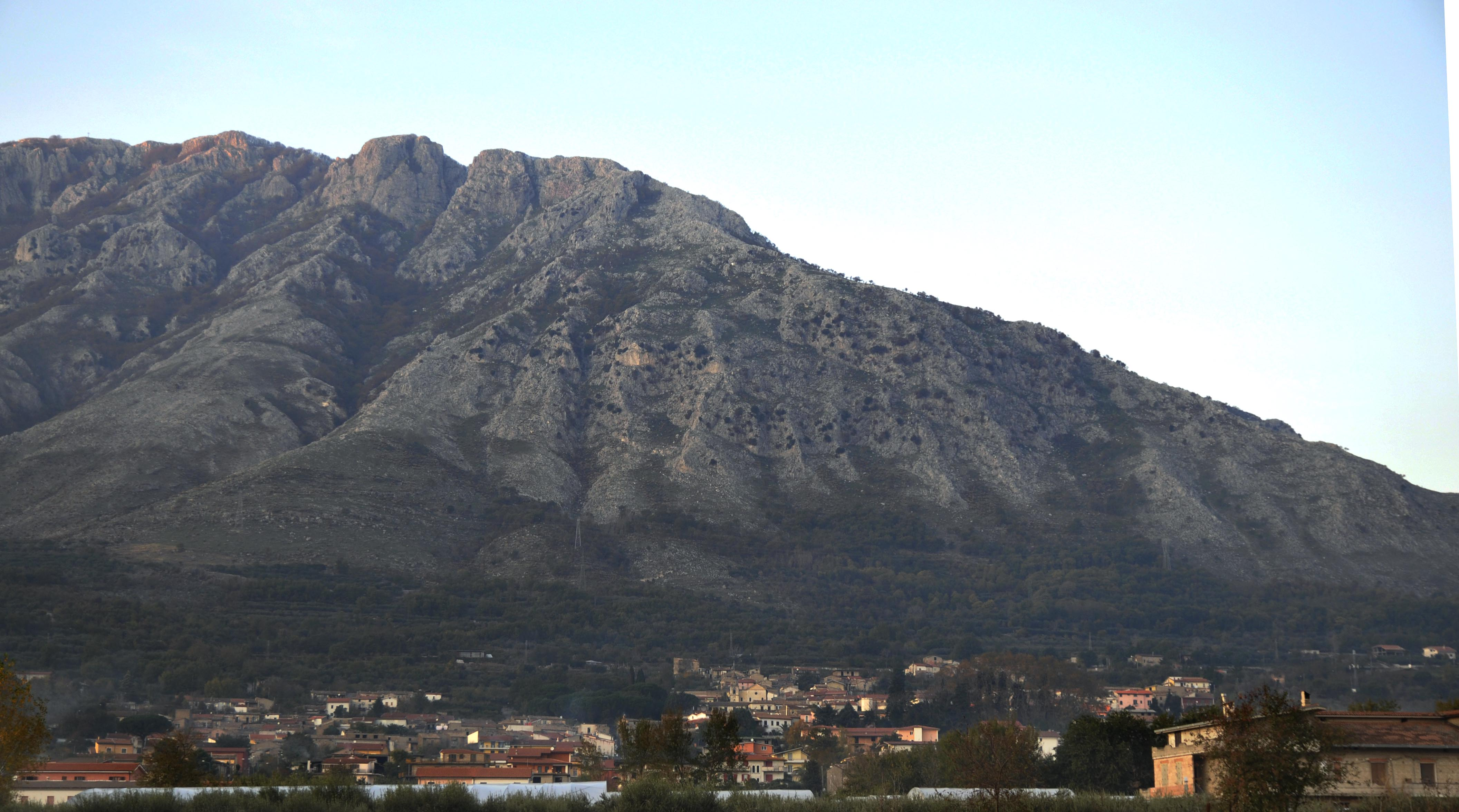 A view of the comune of Bonea, in the province of Benevento at the feet of Mount Taburno.